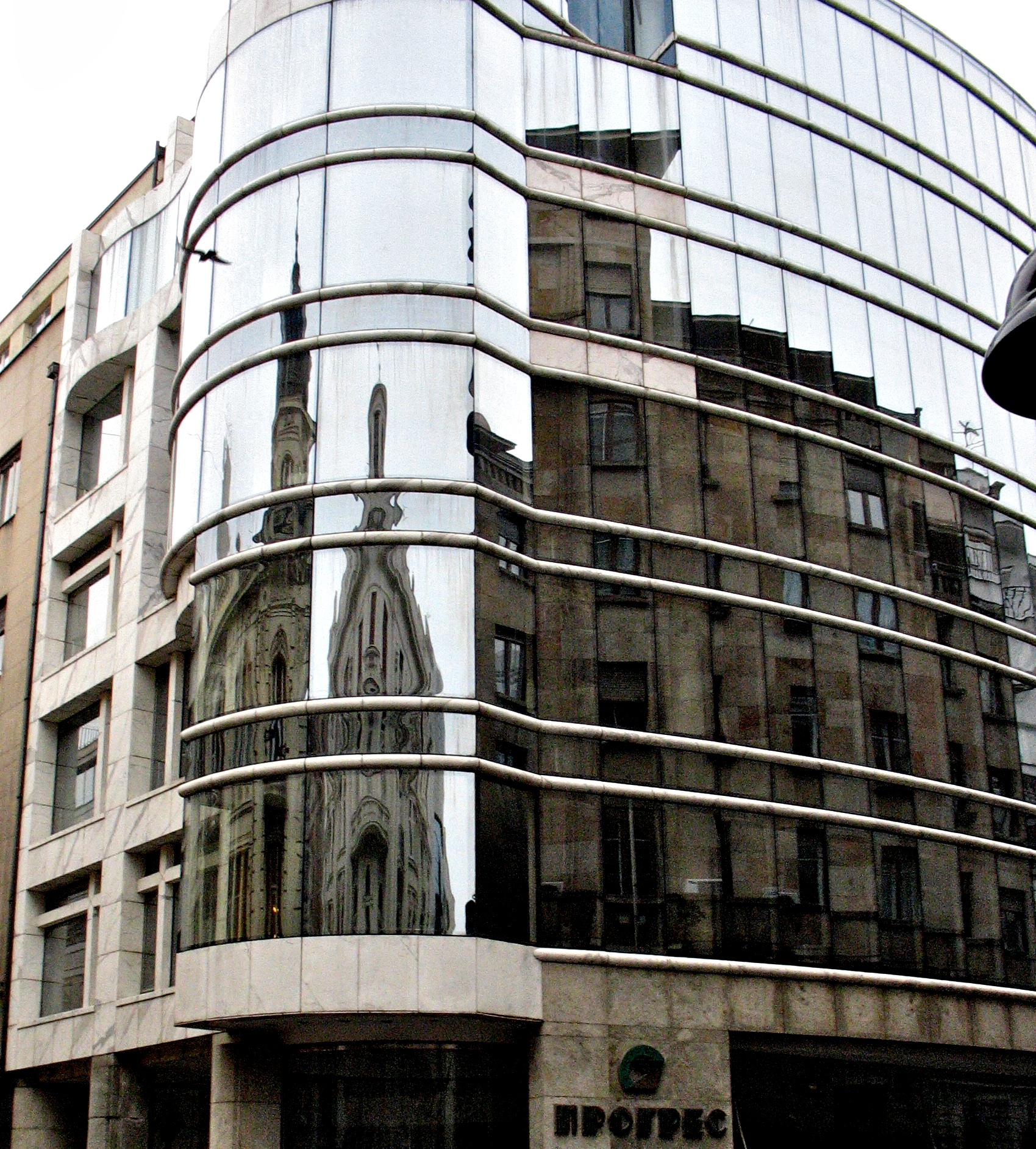 Building in Zmaj Jovina 10 (at intersection with Knez Mihailova), Belgrade, reflects nearby buildings on its facade.